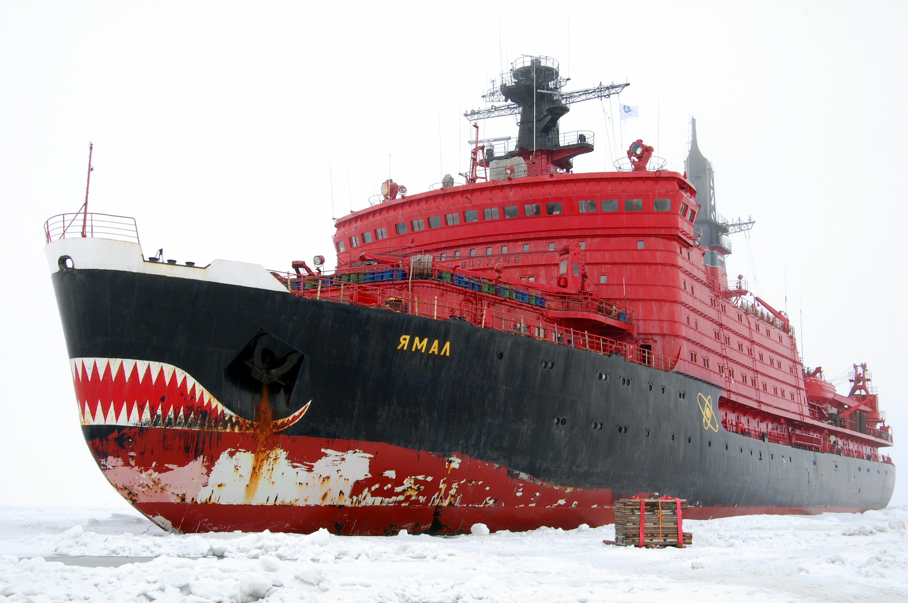 Icebreaker Yamal during removal of manned drifting station North Pole-36. August 2009.